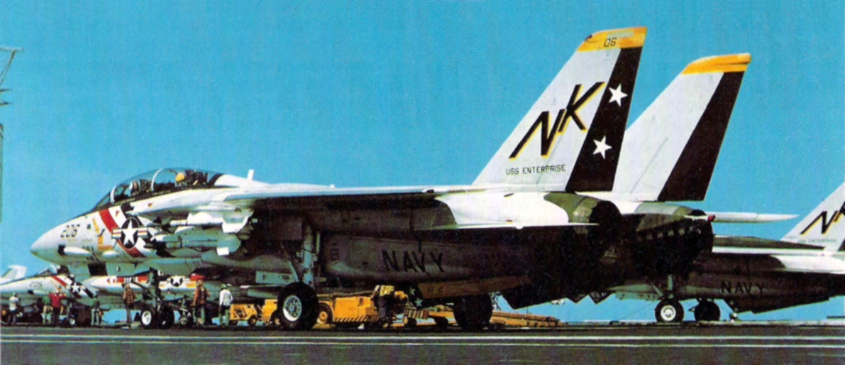 A U.S. Navy Grumman F-14A-70-GR Tomcat (BuNo 158986) from fighter squadron VF-2 Bounty Hunters taxies to the catapult on the aircraft carrier USS Enterprise (CVAN-65) in 1975. VF-2 was assigned to Attack Carrier Air Wing 14 (CVW-14) for a deployment to the Western Pacific and Vietnam from 17 September 1974 to 20 May 1975. This was the first deployment of the F-14 Tomcat, VF-1 Wolf Pack and VF-2 covering the evacuation of South Vietnam during this cruise.